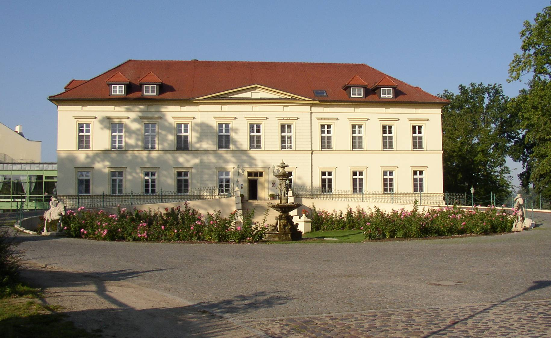 Palace in Teterow-Teschow in Mecklenburg-Western Pomerania, Germany